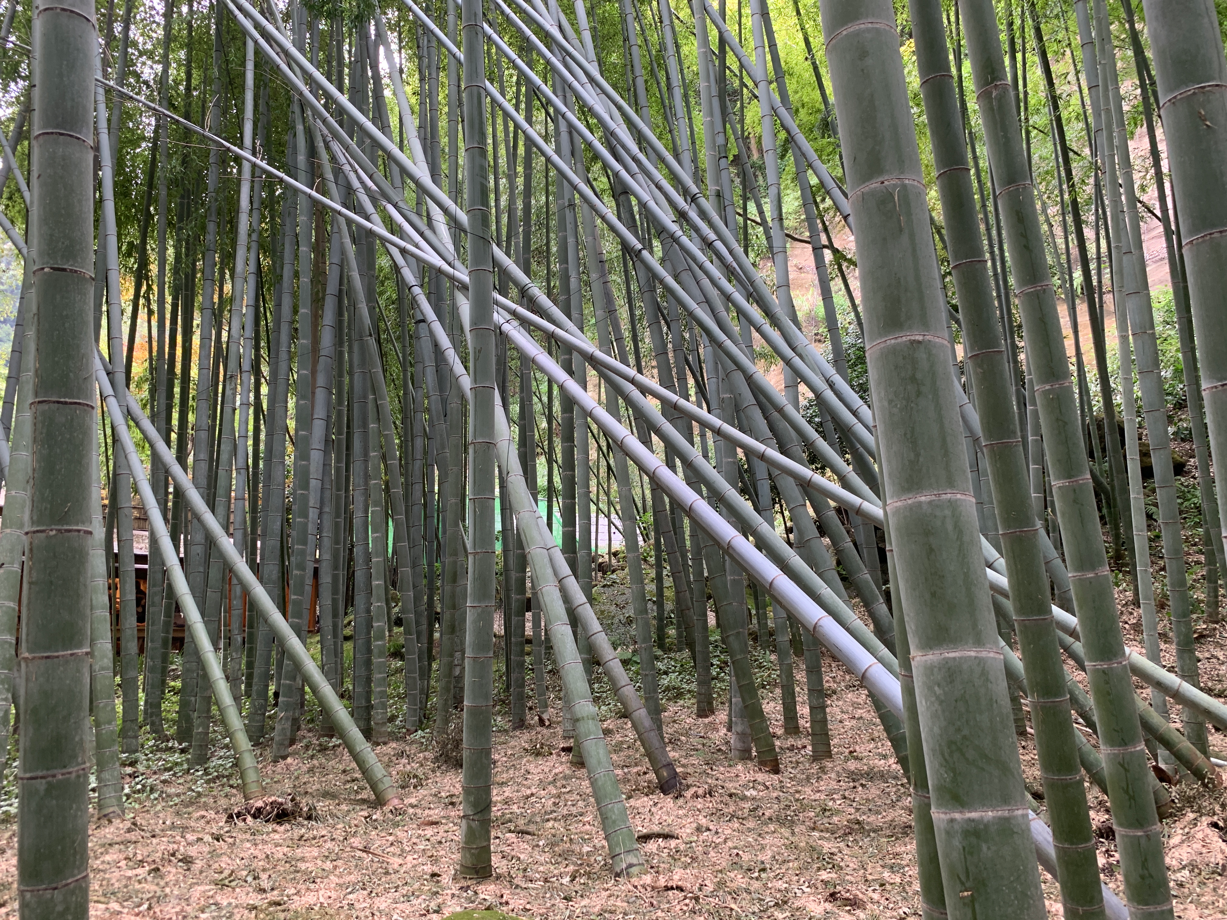 Bamboo falling following typhon Faxai in Hōkoku temple, south of Tokyo.